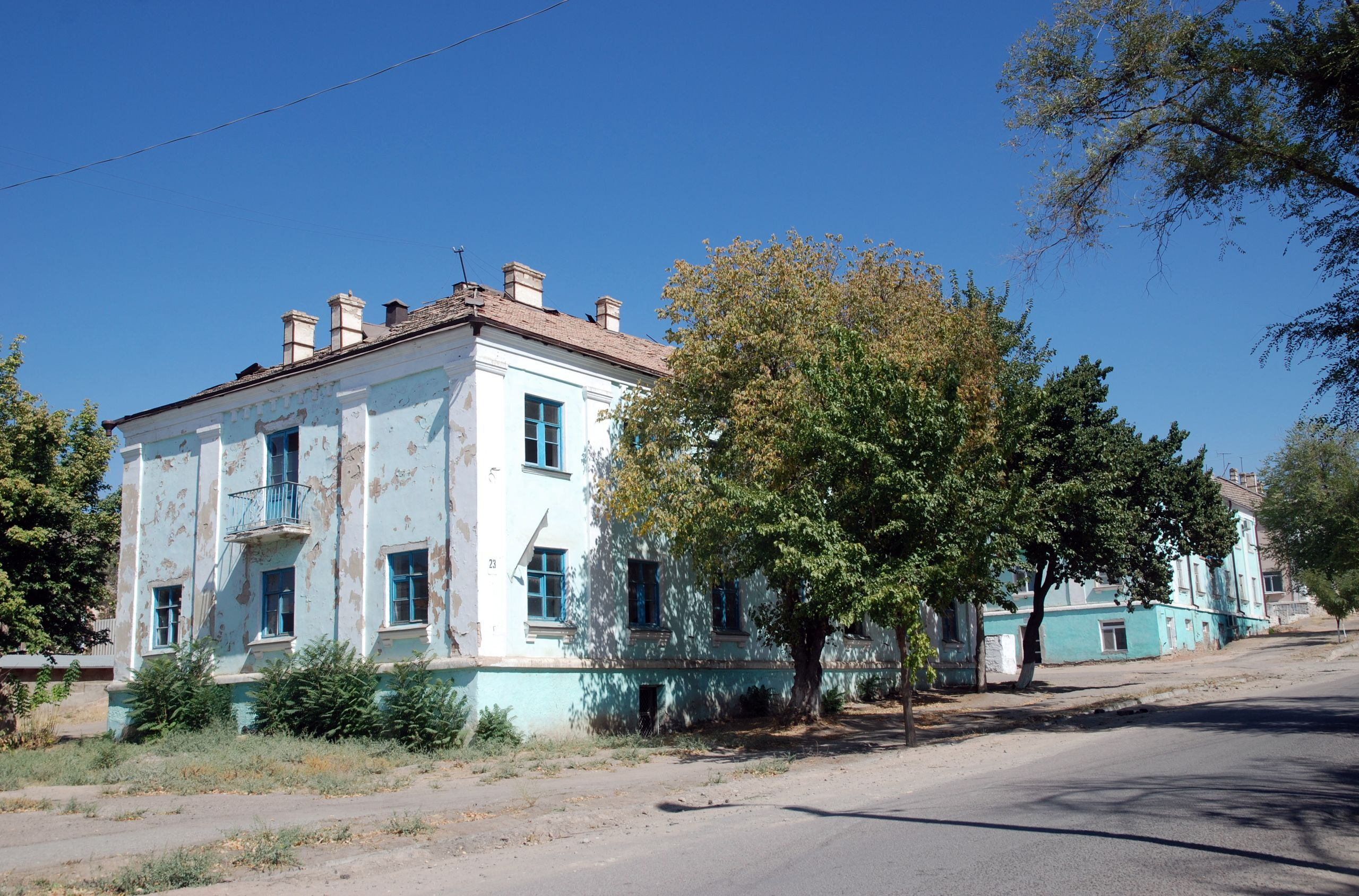 Taboshar, Sughd province, Tajikistan